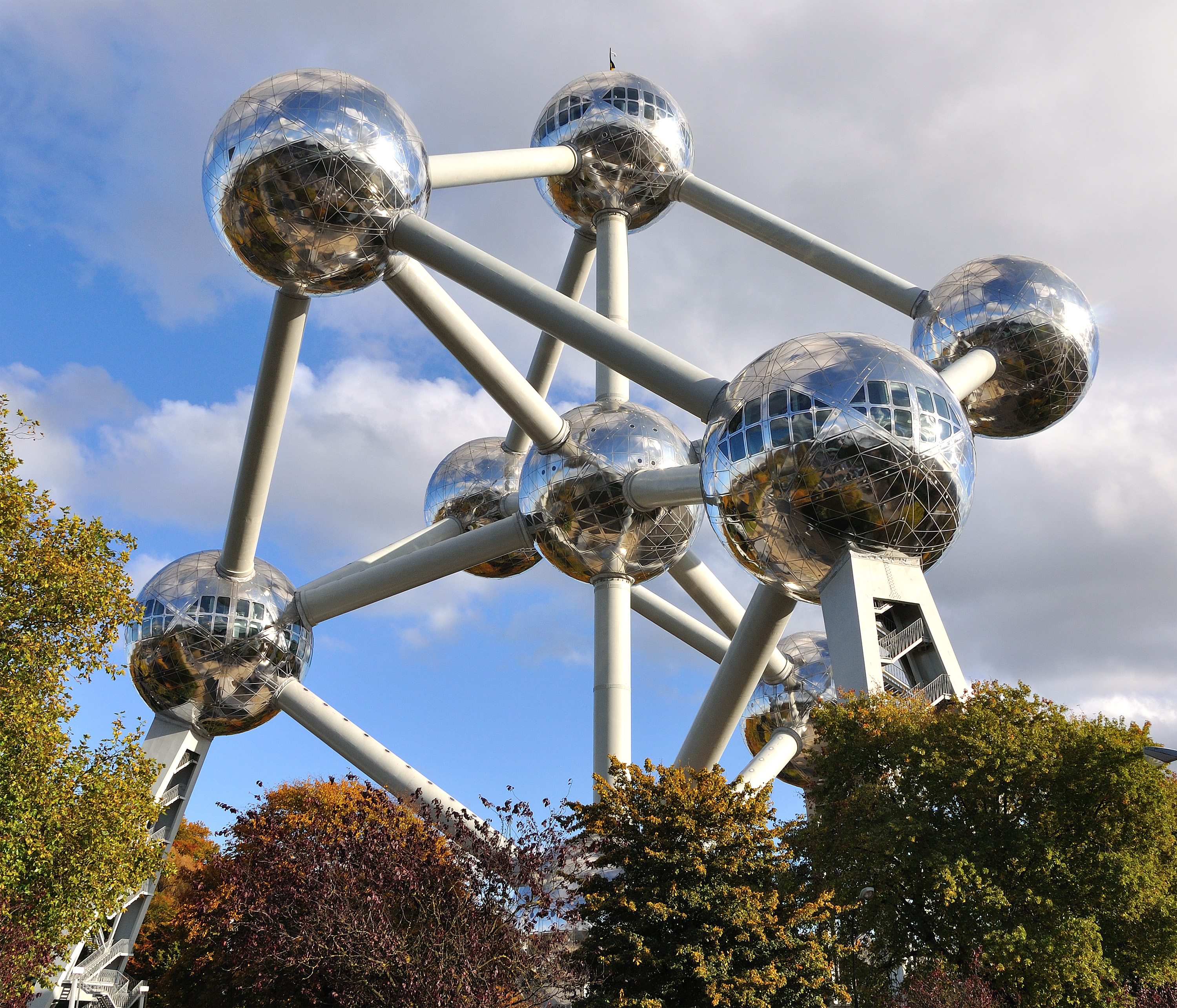 Atomium - Bruxelles, Belgium